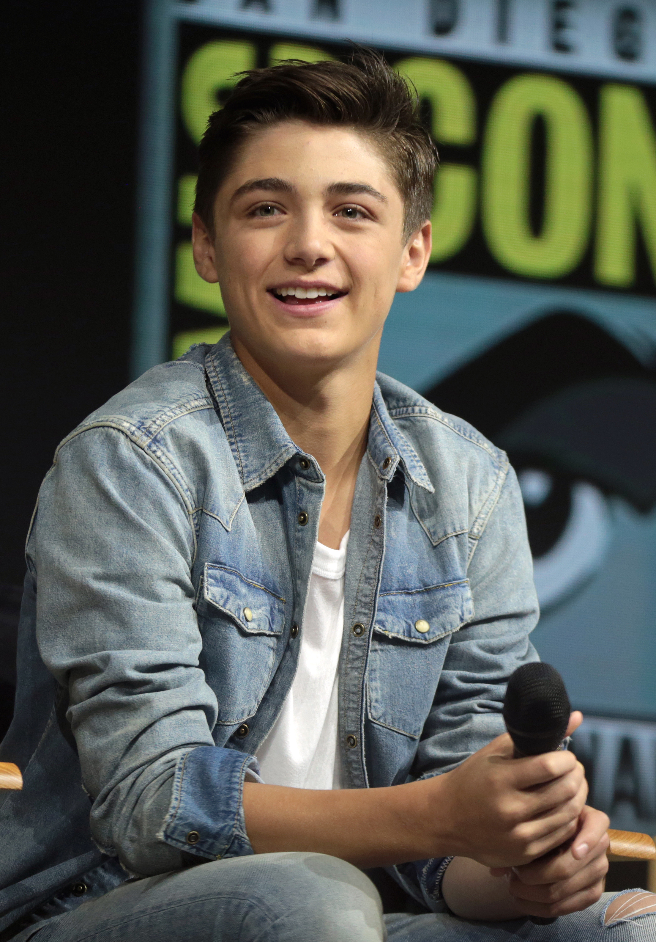 Asher Angel speaking at the 2018 San Diego Comic-Con International in San Diego, California.